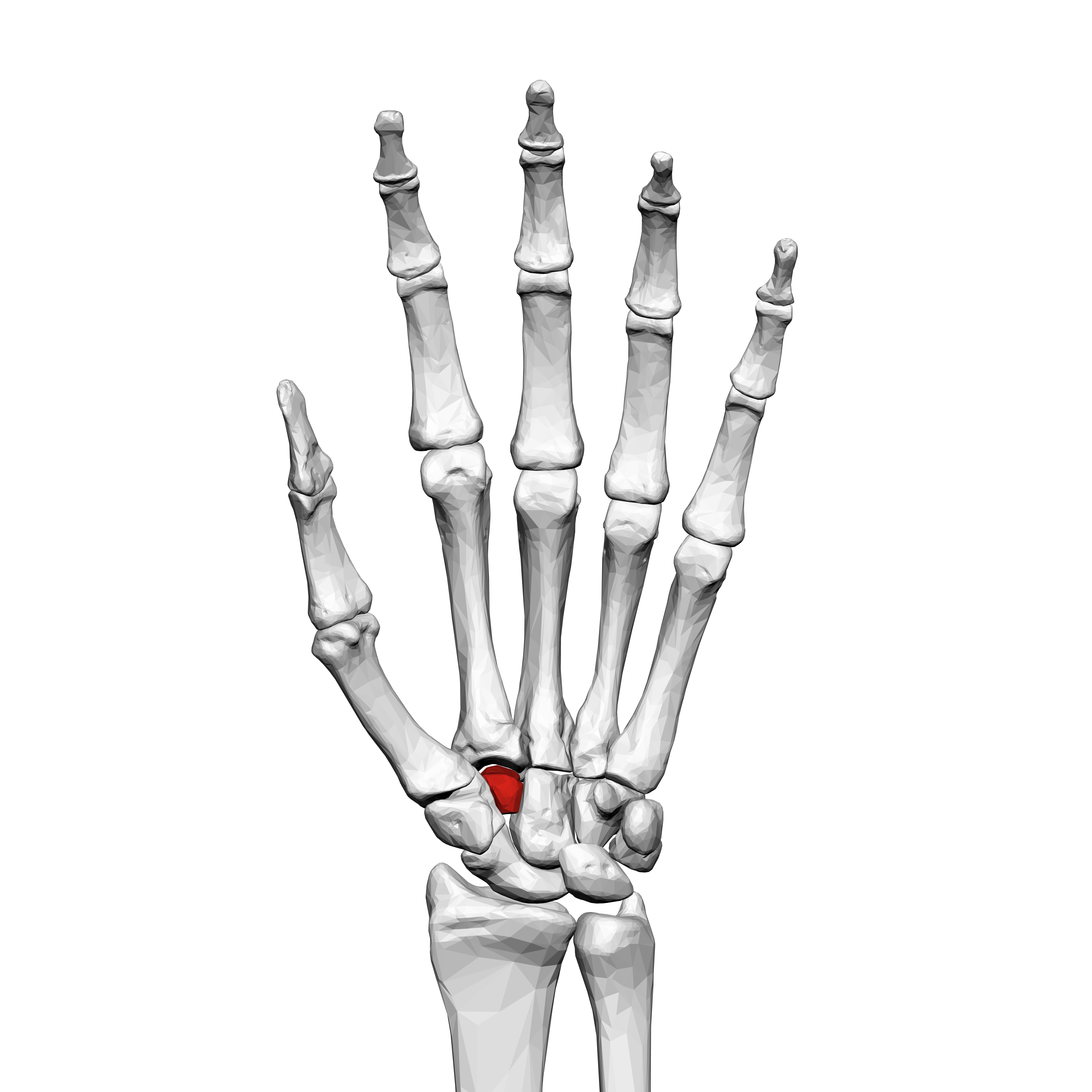 Trapezoid bone (shown in red).